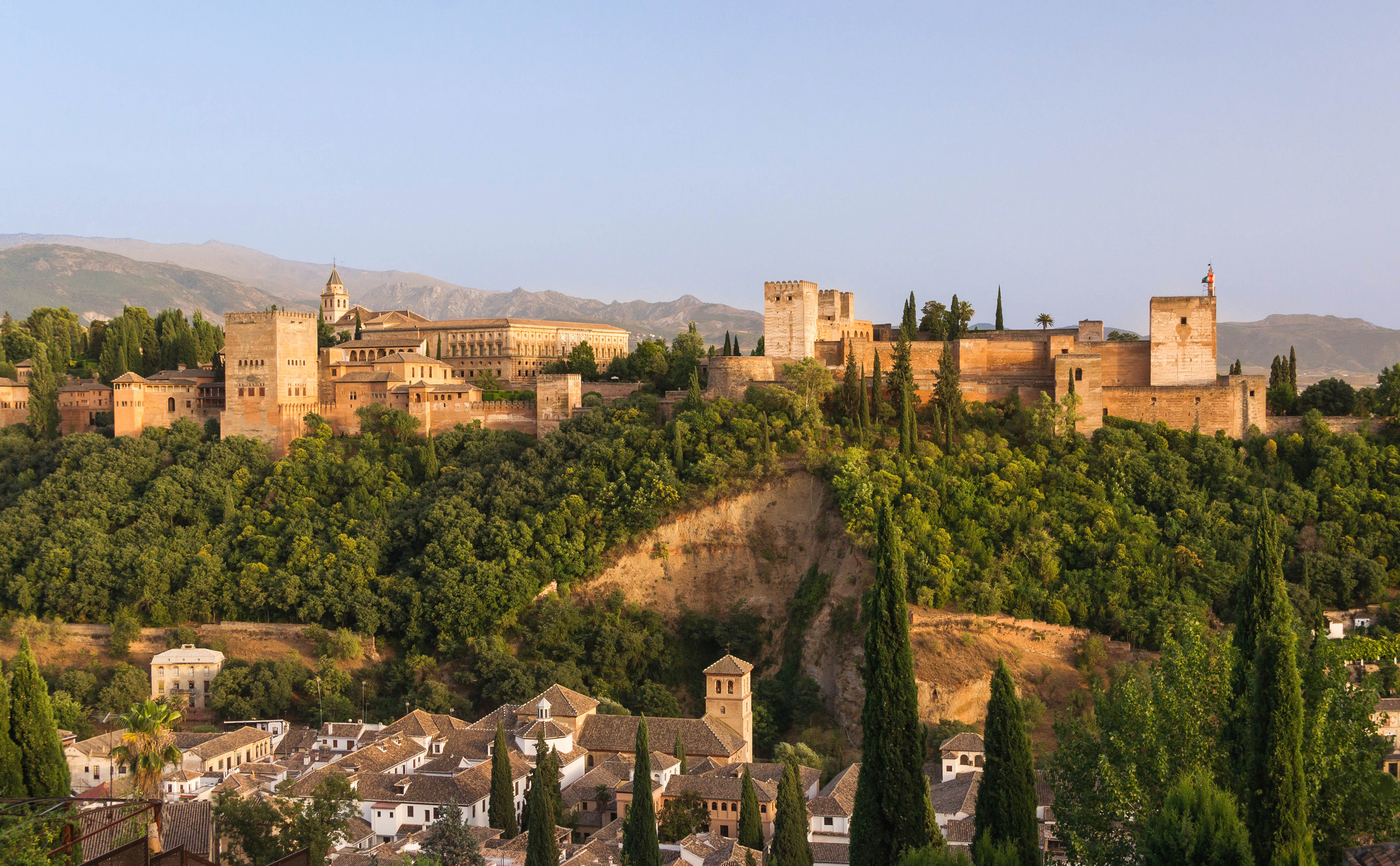 Detail of Alhambra hill, over Granada, Spain.